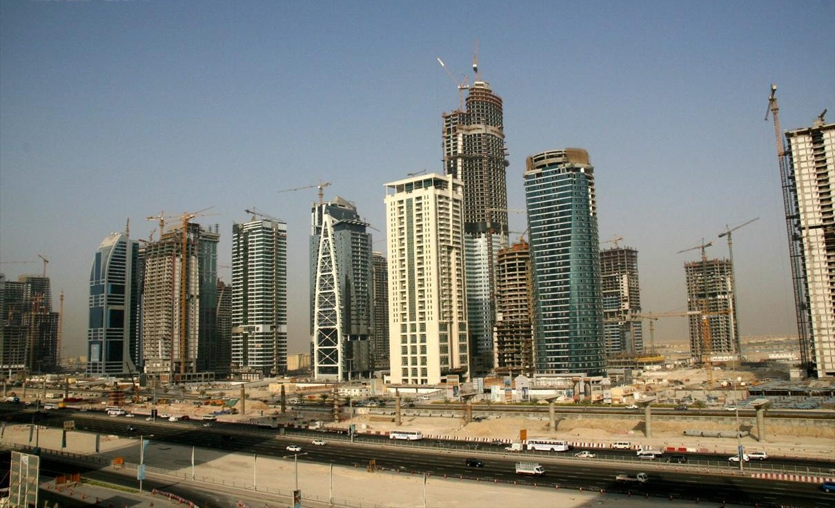 This is a photo showing the construction of Jumeirah Lake Towers, located in Dubai, United Arab Emirates, as seen from Dubai Marina on 12 July 2007.